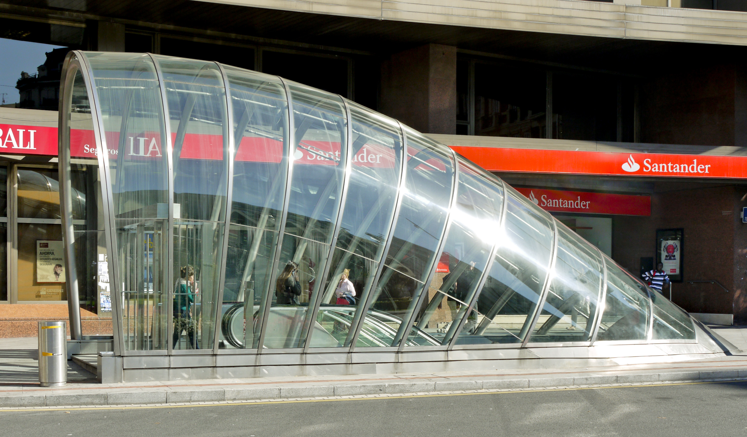 Moyua metro station, Bilbao, Spain. Entrance.